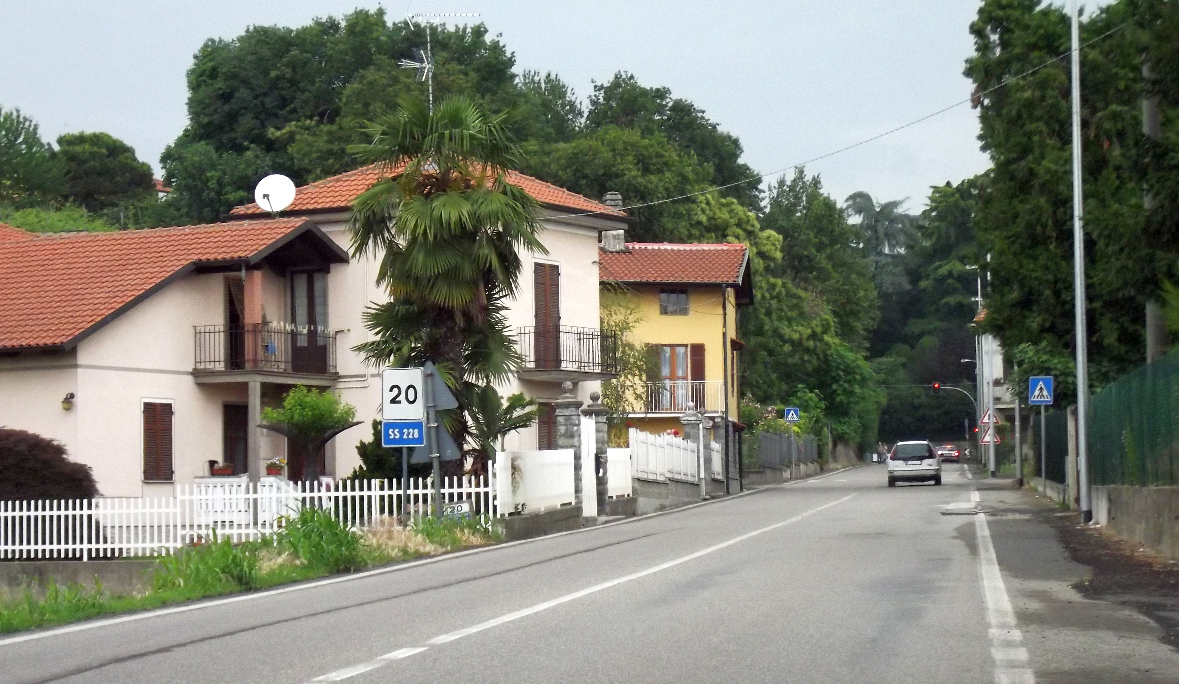 National road 228 del Lago di Viverone in Cavaglià (BI, Italy)